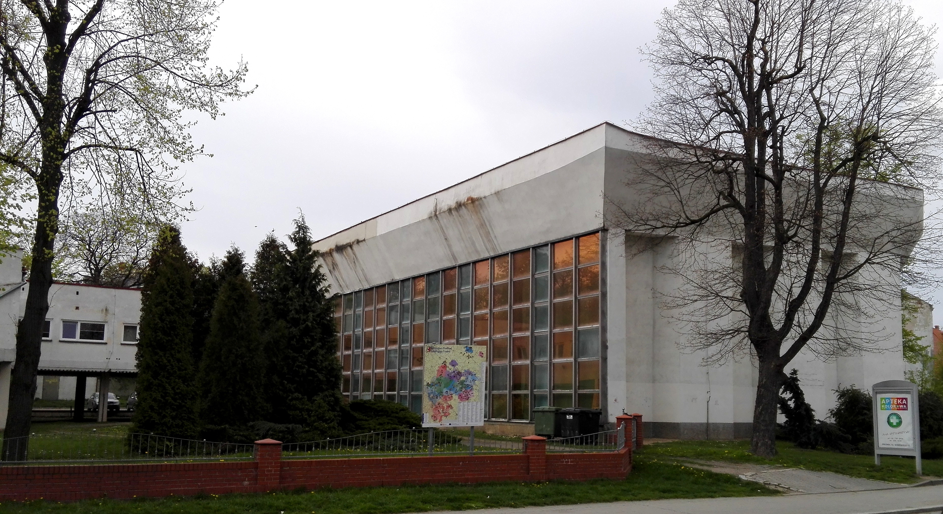 2 Gimnazjalna Street in Prudnik